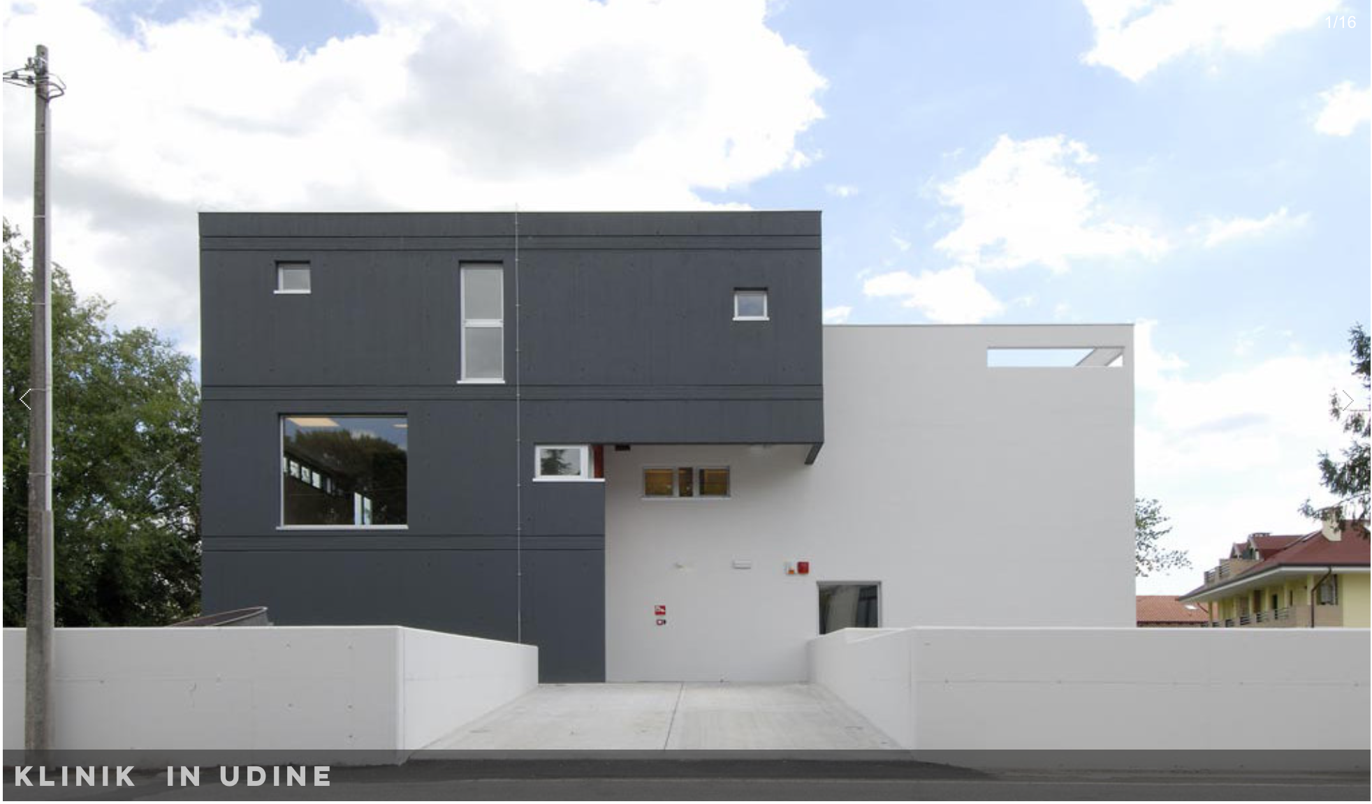 Clinic in Udine -Friuli Venezia Giulia -architect Robby Cantarutti